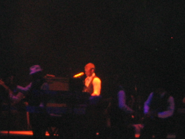 Justin Timberlake singing What Goes Around.../Comes Around and playing piano in a New York.